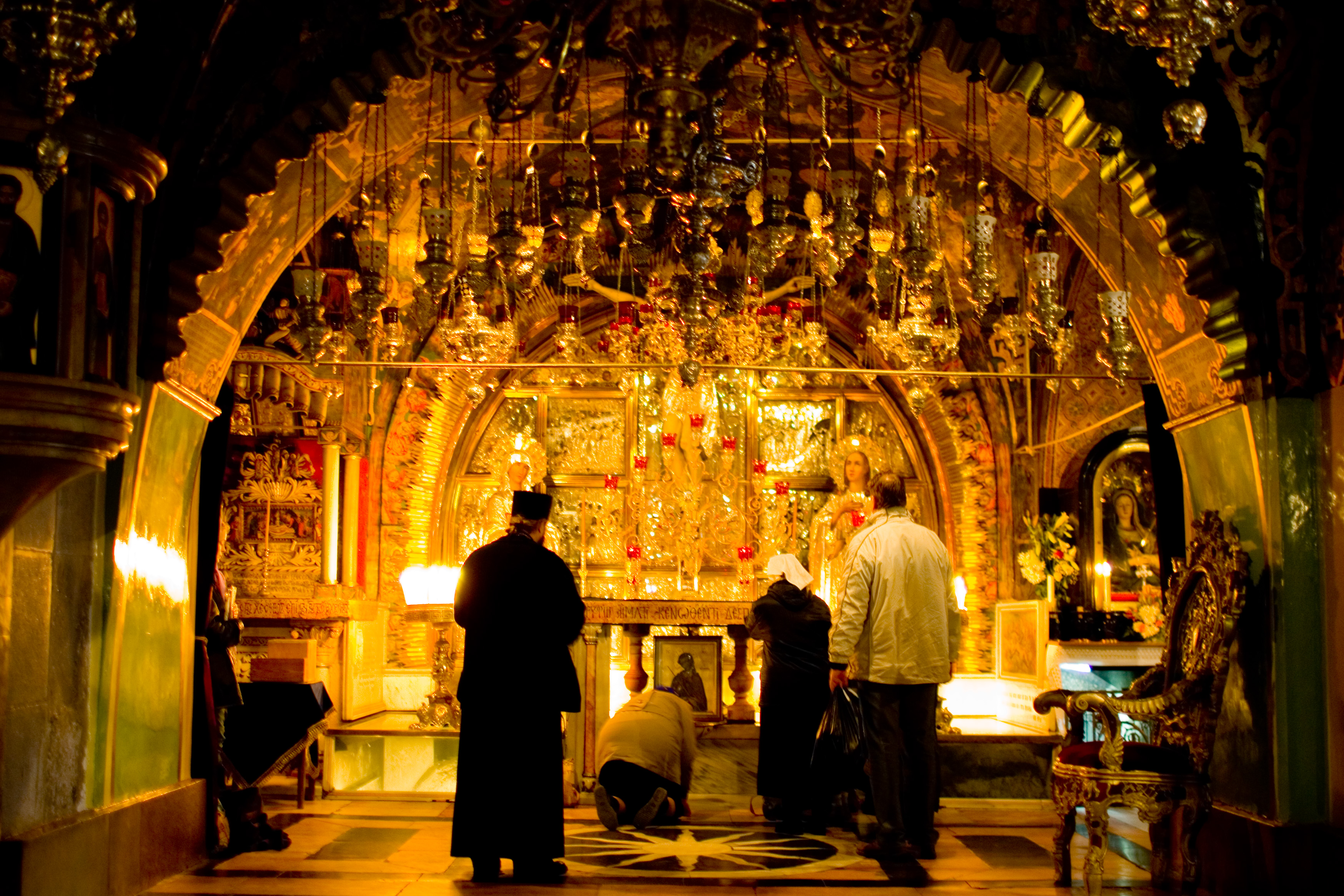 The Greek Altar of Calvary, Church of the Holy Sepulchre. Jerusalem, Israel.